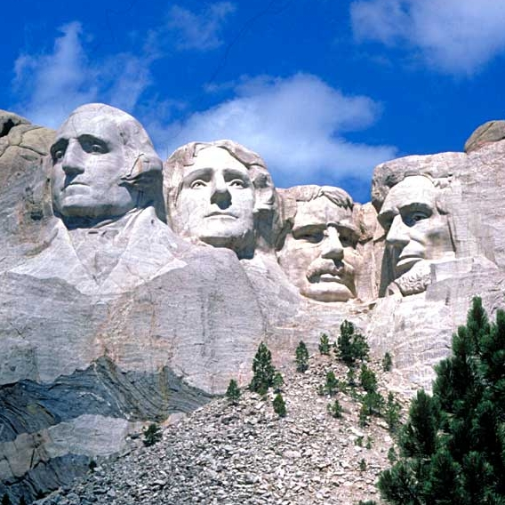 Mount Rushmore - from left to right : George Washington, Thomas Jefferson, Theodore Roosevelt and Abraham Lincoln.